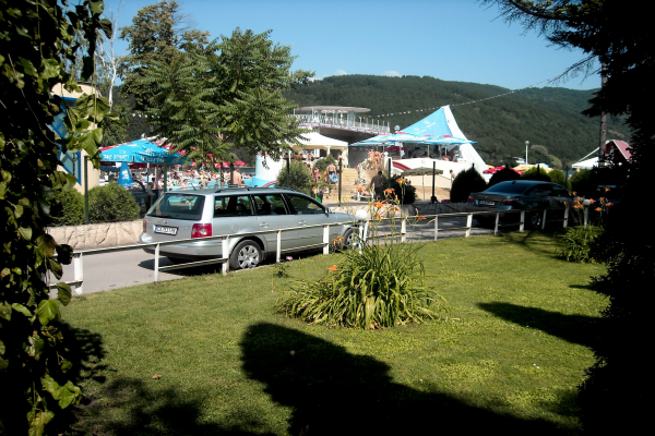 Entertainment in the Pancharevo Mineral Swimming pool and SPA